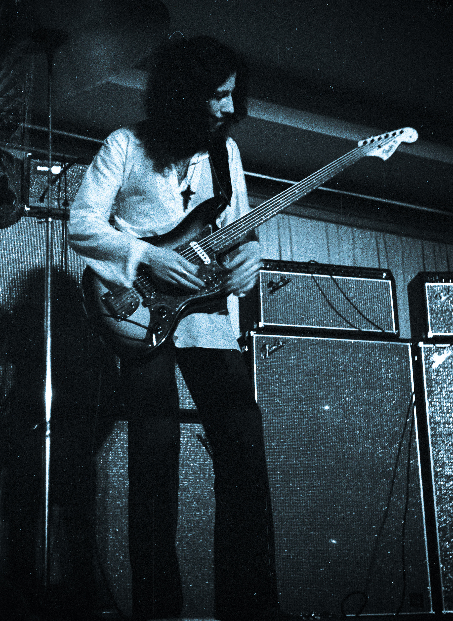 Peter Green, Fleetwood Mac, Playing a Fender Bass VI March 18, 1970 Niedersachsenhalle, Hannover, Germany, The Touring Band: Mick Fleetwood - Percussion, Peter Green - Lead Vocals/Guitar/Harmonica (left band in May), John McVie - Bass Guitar, Jeremy Spencer - Vocals/Guitar, Danny Kirwan - Vocals/Guitar